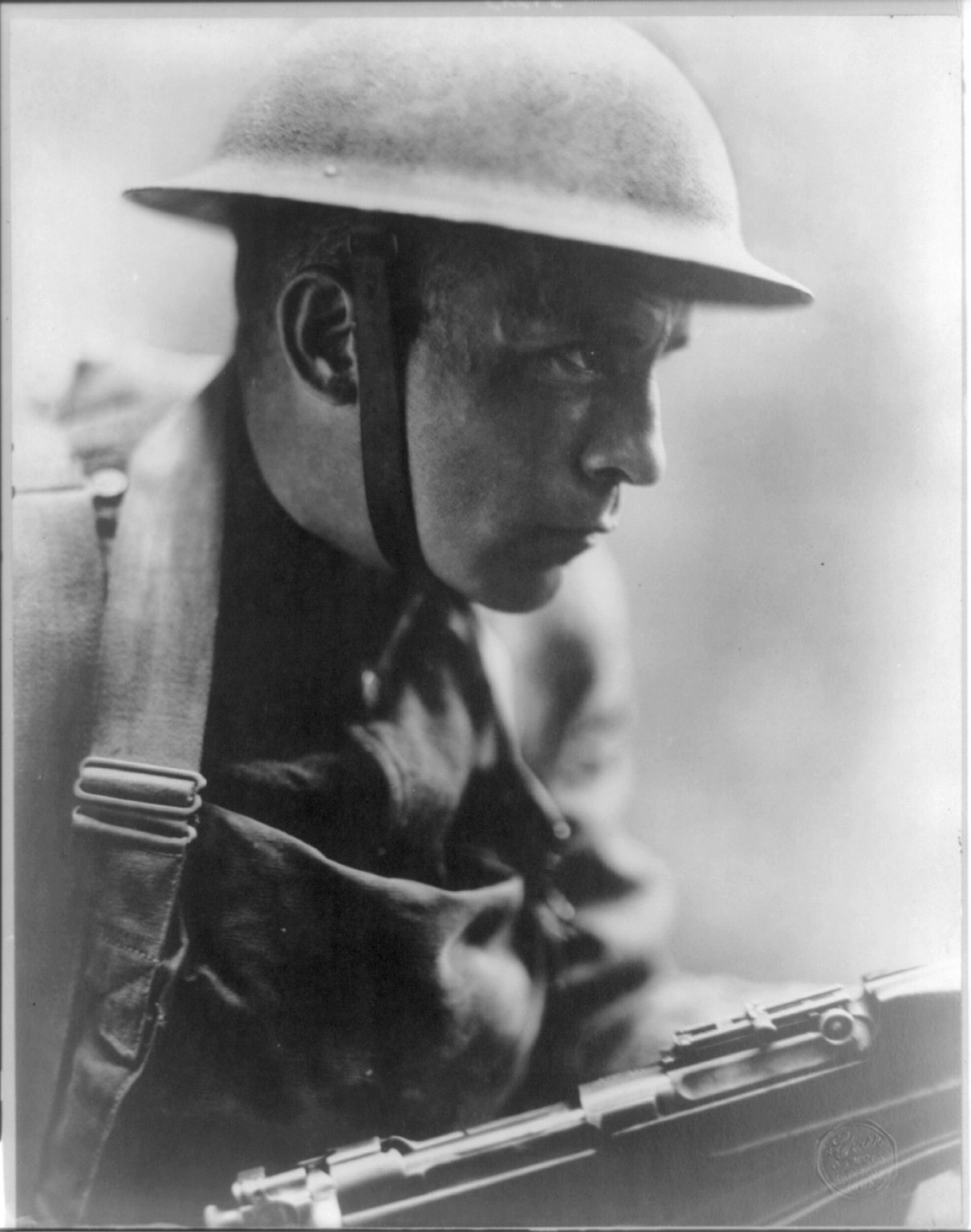 Title: "Over the top" [close-up of doughboy in full combat dress] Abstract/medium: 1 photograph : print.